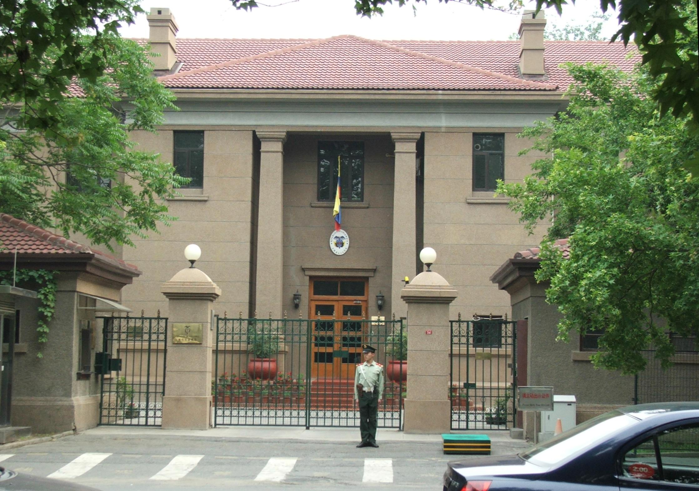 Embassy of Colombia in Beijing - China.